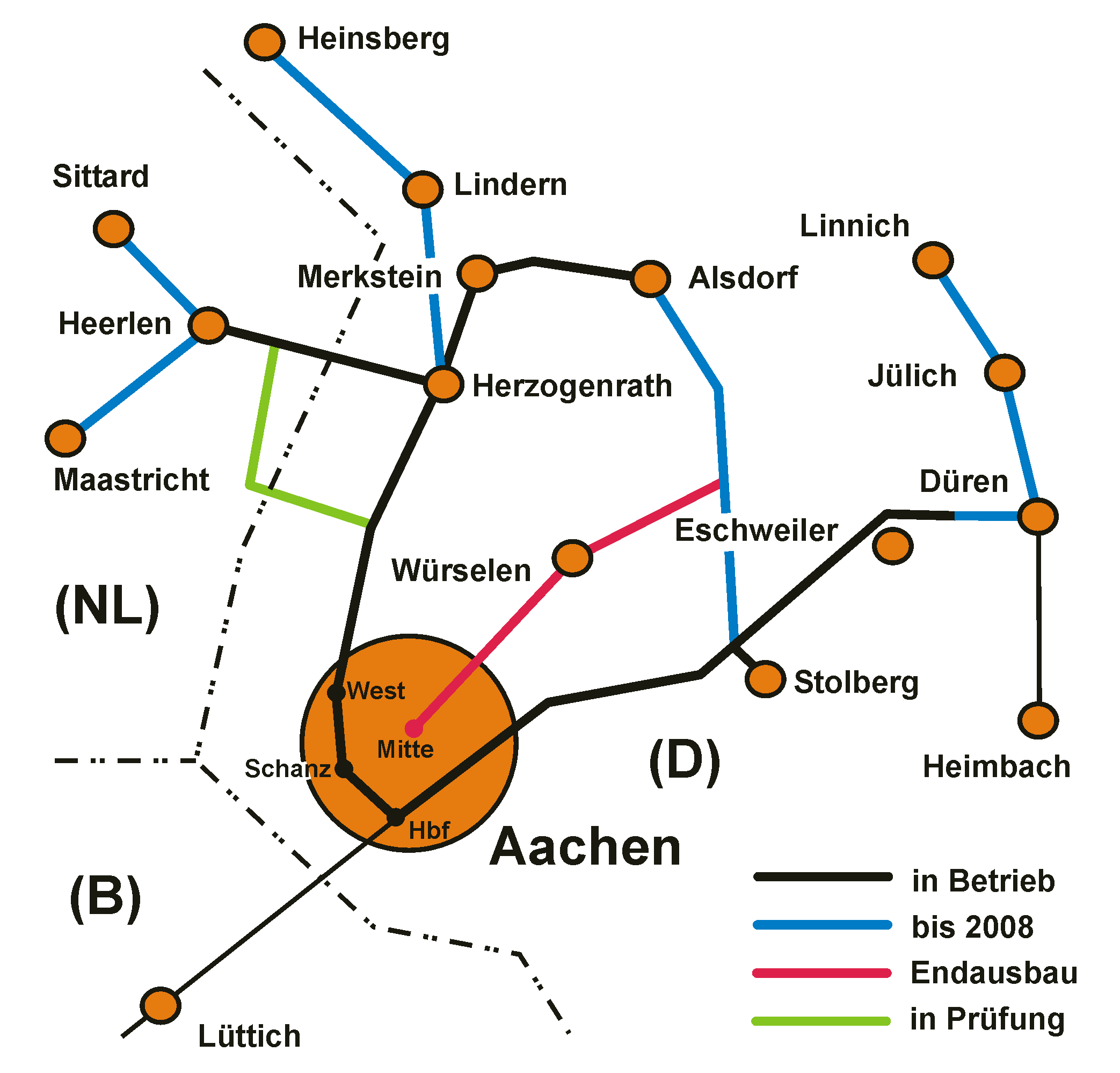 Originally planned Network of the Euregiobahn Aachen